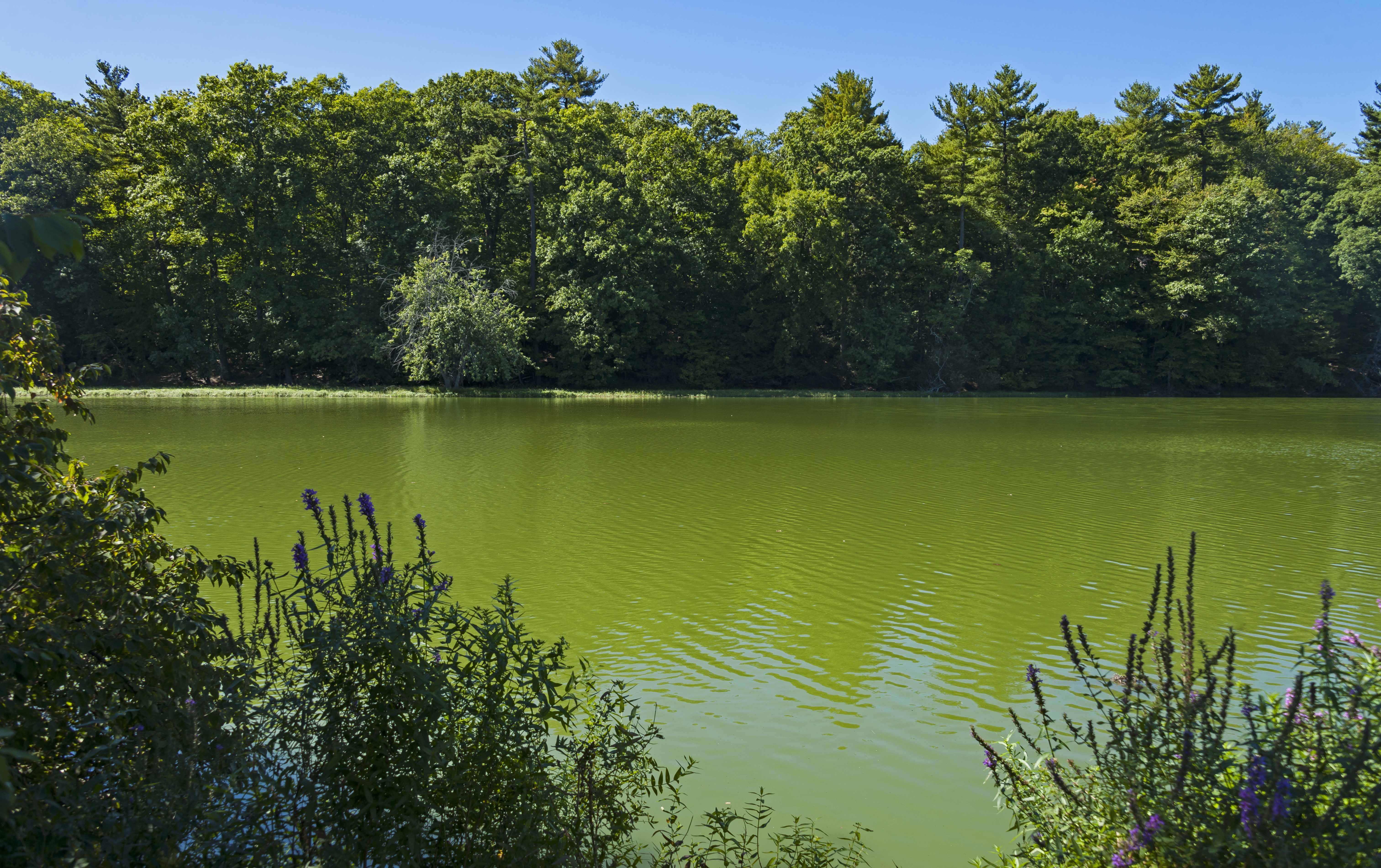 Wallkill River at Wallkill, NY, USA, its waters turned green by an algae bloom in late summer 2016